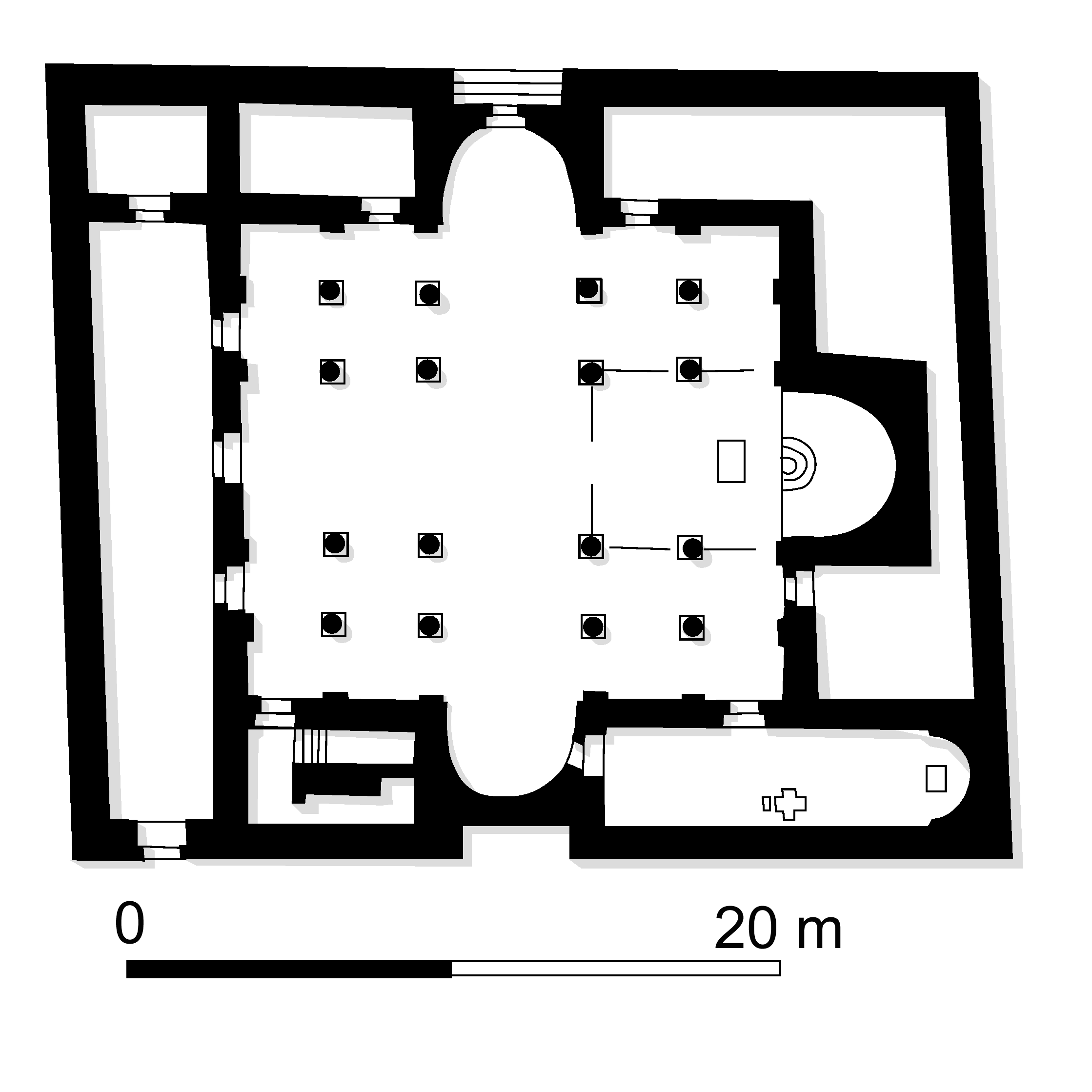 Plan of the Church with the Granite Columns, Old Dongola (Nubia), late 7th century